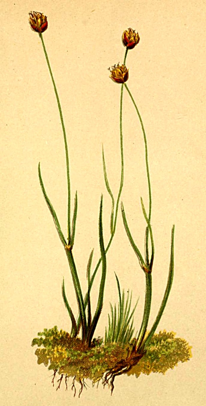 Juncus triglumis